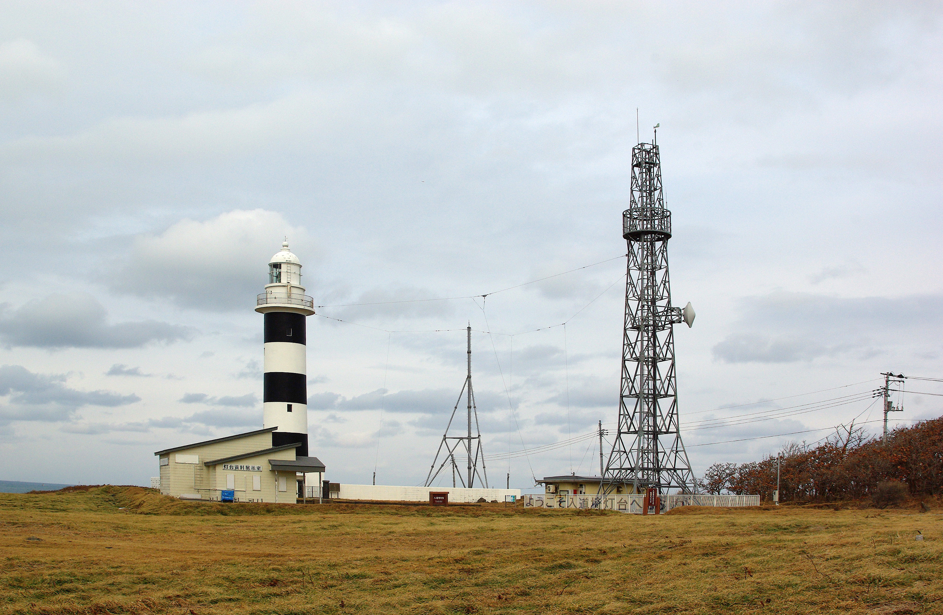 Lighthouse_Nyudouzaki_Akita in Japan